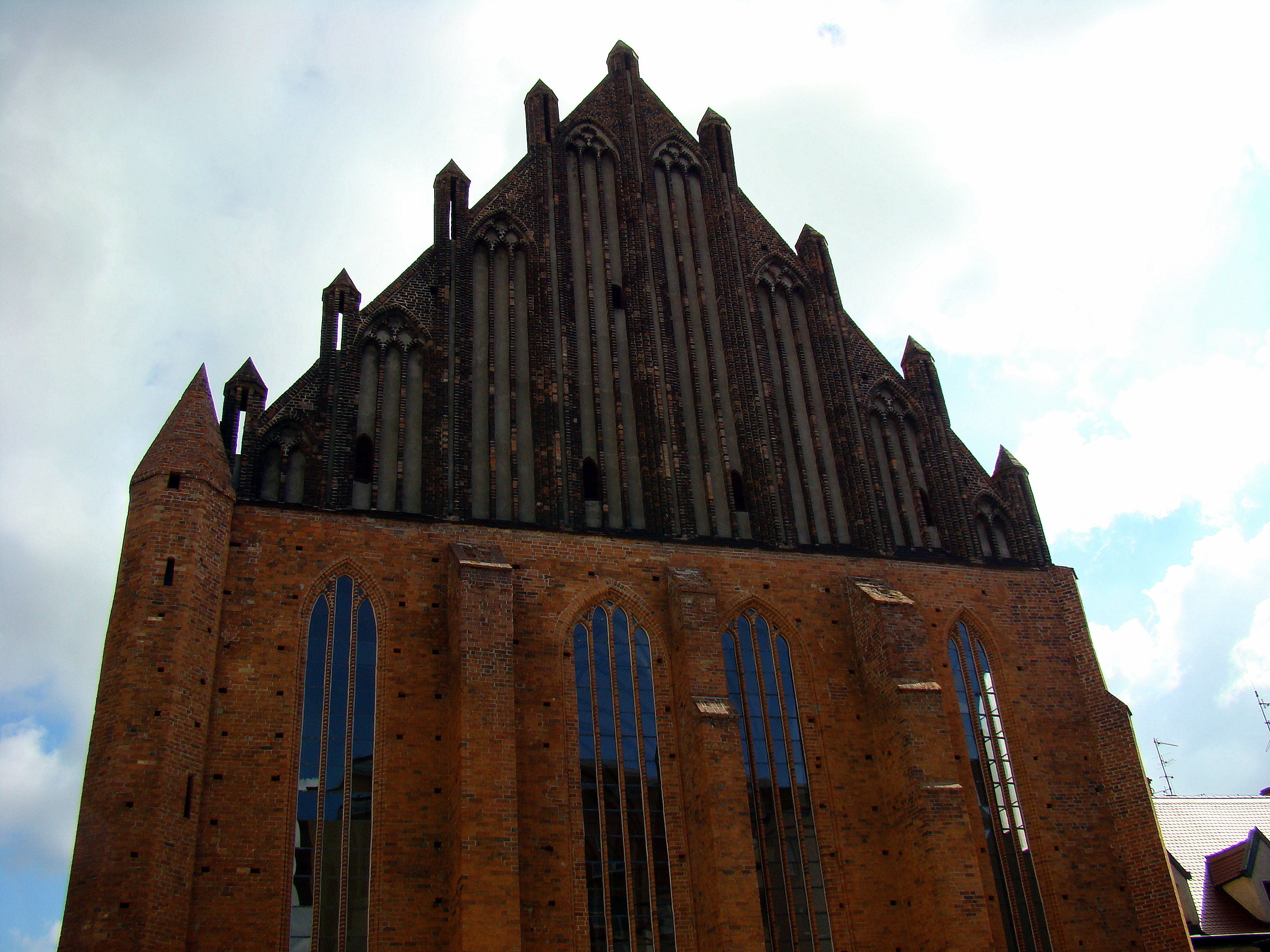 St. John the Evangelist Church, Szczecin, Poland